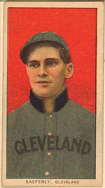 Ted Easterly - baseball card.